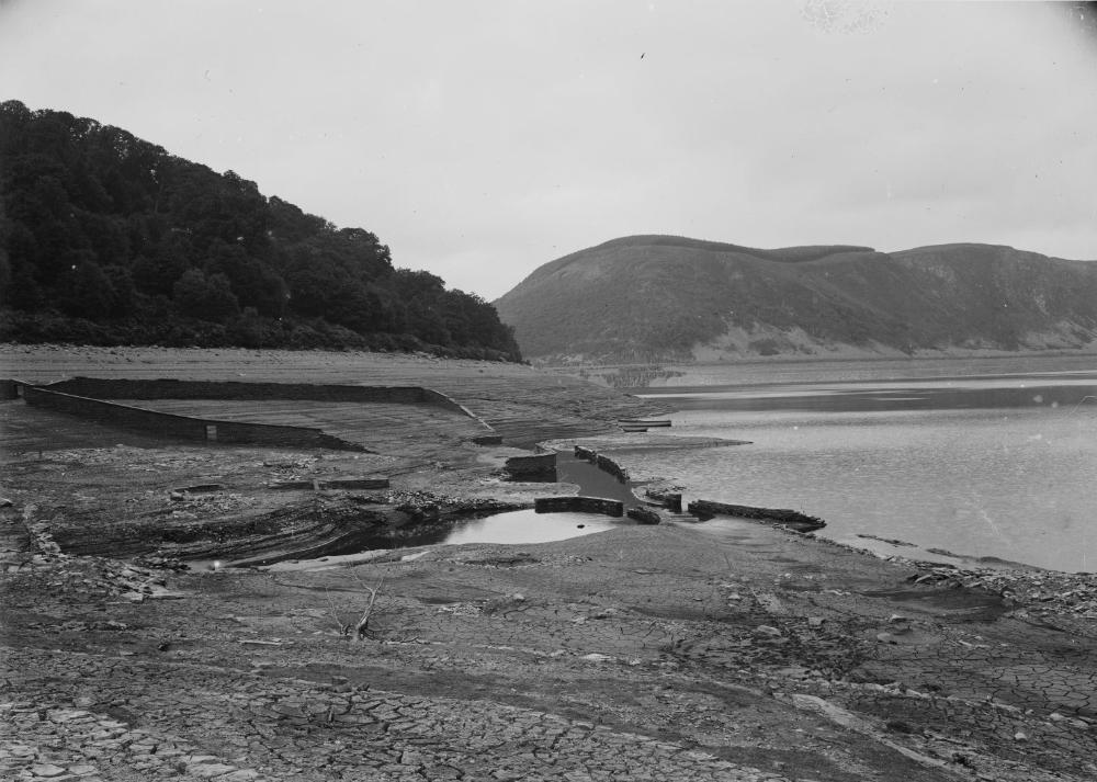 Abstract: Remains of a house visible in an Elan Valley reservoir